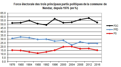 Electoral force of the main political parties of the community of Nendaz.